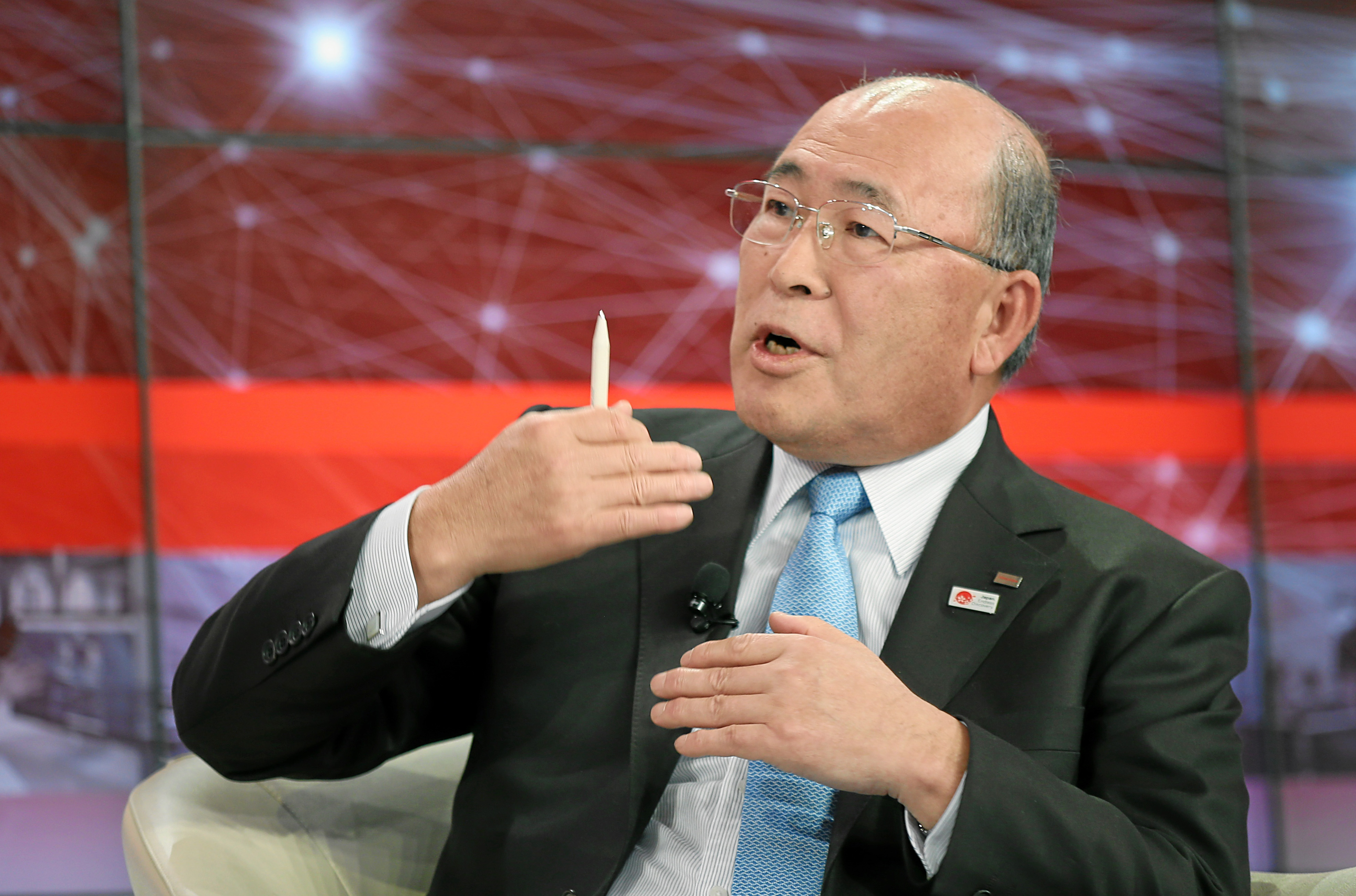 Atsutoshi Nishida, Chairman of the Toshiba Corporation, spoke about the "Citizen Power -- Leading Connected Societies" at the Annual Meeting of the World Economic Forum in Davos Municipality, Graubünden Canton on January 26, 2013.